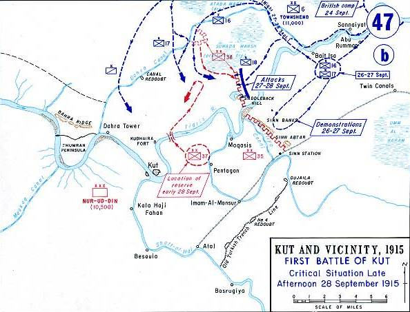 This map shows the 1st British capture of Kut, in 1915, under General Townshend. See Siege of Kut